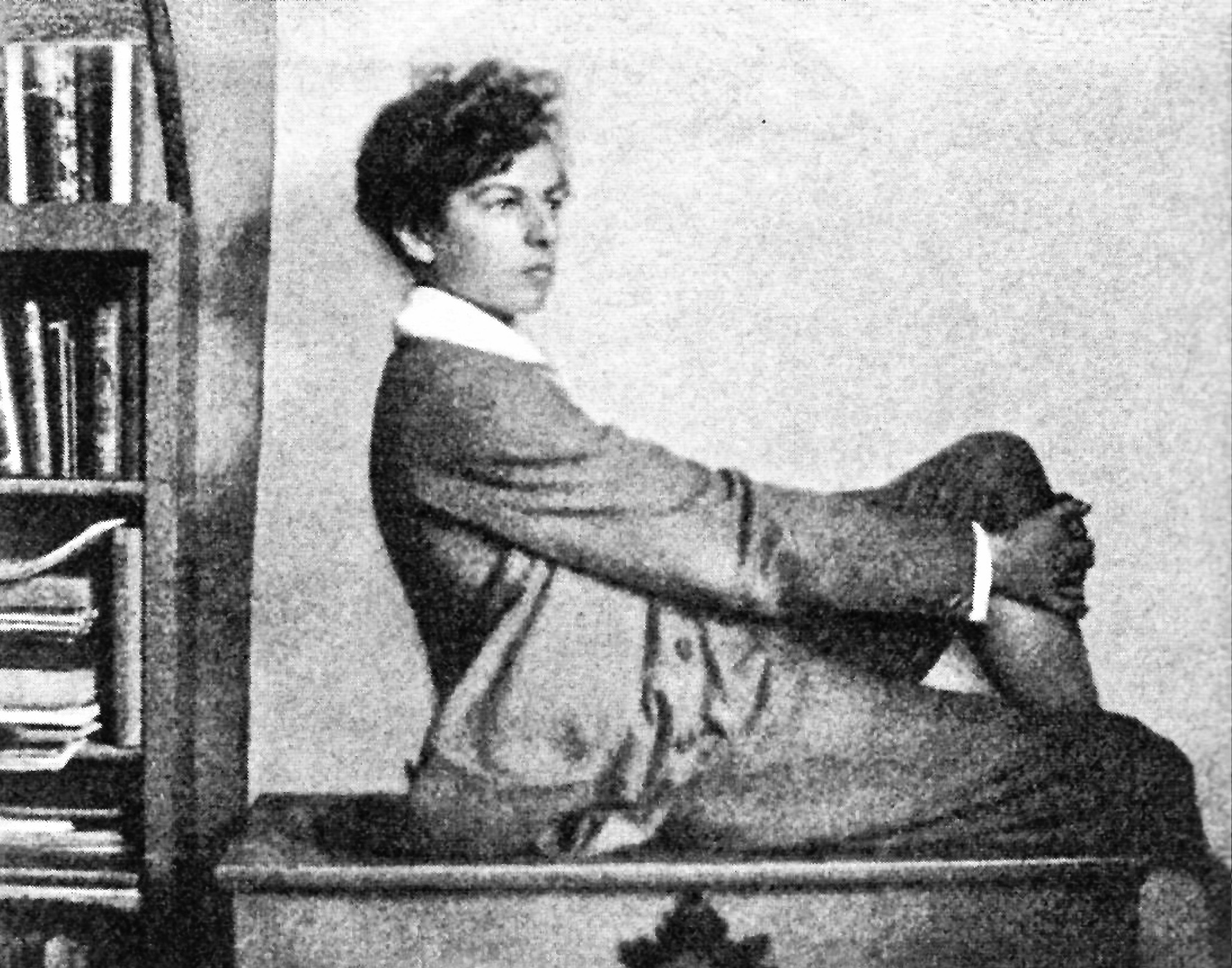 Otto Braun (1897–1918) as a 16 or 17 year old in 1914.